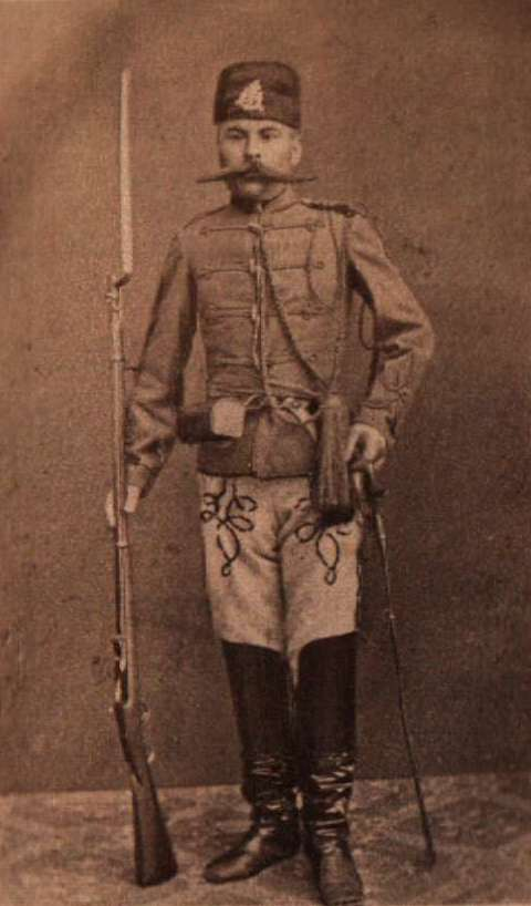 Sider Grancharov (1839-1876)